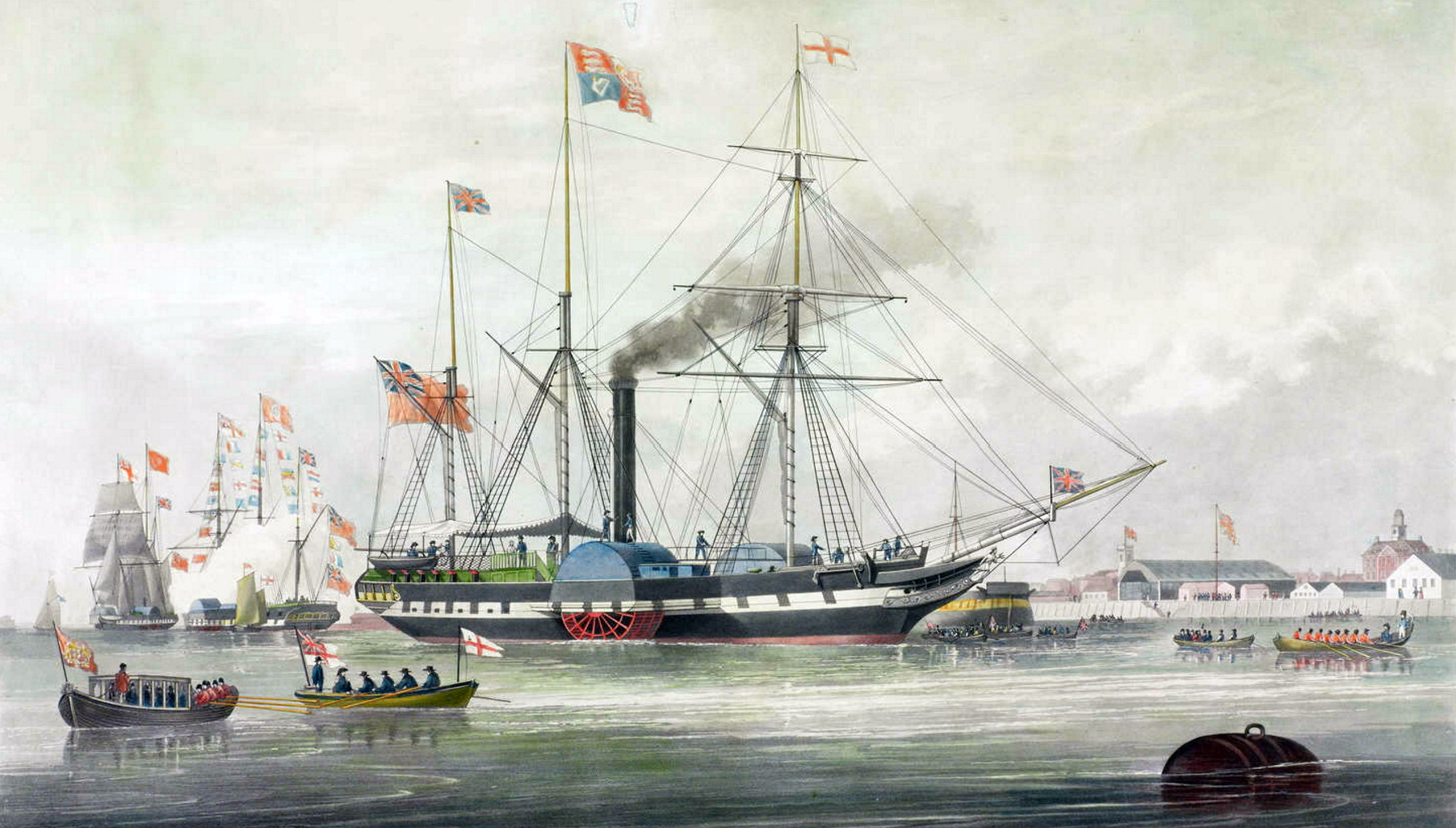 Arrival of Queen Victoria & Prince Albert aboard the ship Trident at Woolwich Dockyard, 12 September 1842. Engraving by E. Duncan after a coloured drawing by William John Huggins, published by Huggins (1843). Collection of the London Metropolitan Archives.